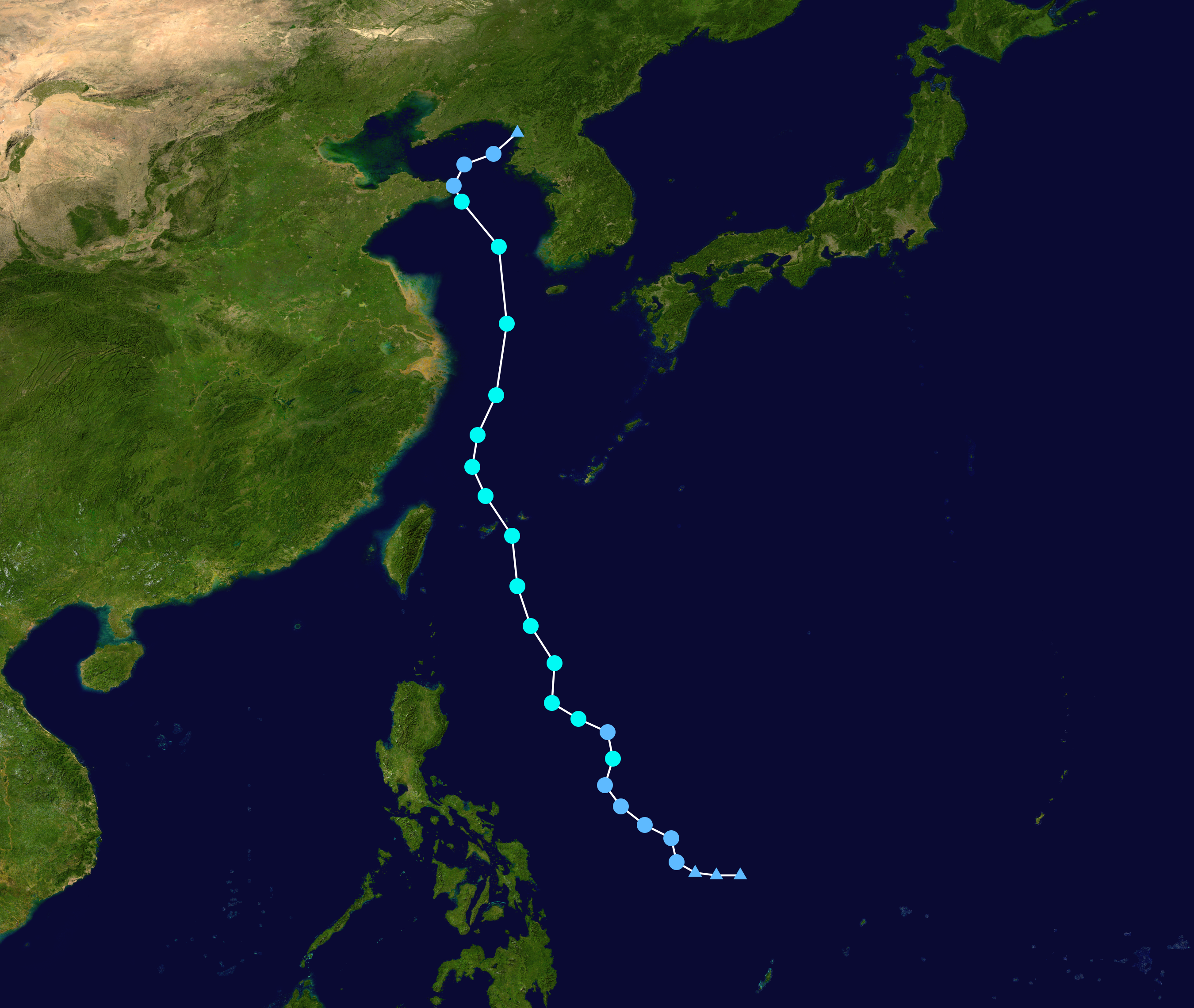 Track map of Severe Tropical Storm Meari of the 2011 Pacific typhoon season. The points show the location of the storm at 6-hour intervals. The colour represents the storm's maximum sustained wind speeds as classified in the Saffir–Simpson scale (see below), and the shape of the data points represent the nature of the storm, according to the legend below. Saffir–Simpson scale Tropical depression≤38 mph≤62 km/h Category 3111–129 mph178–208 km/h Tropical storm39–73 mph63–118 km/h Category 4130–156 mph209–251 km/h Category 174–95 mph119–153 km/h Category 5≥157 mph≥252 km/h Category 296–110 mph154–177 km/h Unknown Storm type Tropical cyclone Subtropical cyclone Extratropical cyclone / Remnant low / Tropical disturbance / Monsoon depression